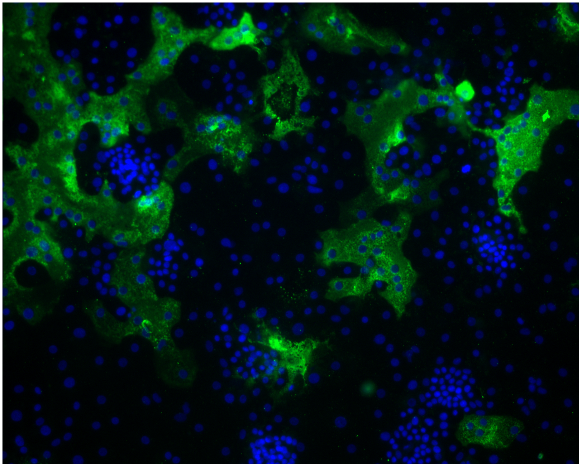 Formation of large syncytia of primary human alveolar type II cells infected with HCoV-HKU1. Cells were inoculated with a 1∶10 dilution of the clinical isolate HKU1/DEN/2010/21 at 34oC and fixed 120 hours post infection. Type II cell cultures were immunolabeled with polyclonal rabbit antibodies to purified HCoV-HKU1 spike protein and fluorescein labeled anti rabbit IgG (green). Nuclei were stained with DAPI (blue). Viral antigen is seen only within the cytoplasm of the cells. Efficient infection with cell to cell spread and formation of large, multinucleated giant cells is clearly evident.